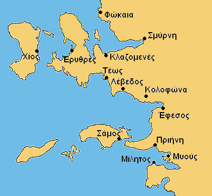 Map of Ancient Ionia